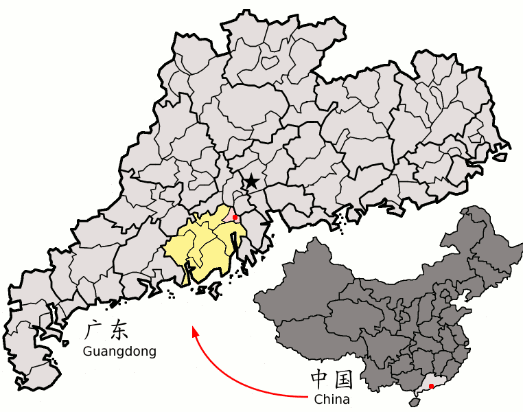 Location of Jiangmen city (red), Pengjiang and Jianghai districts (pink) and Jiangmen prefecture (yellow) within Guangdong province of China